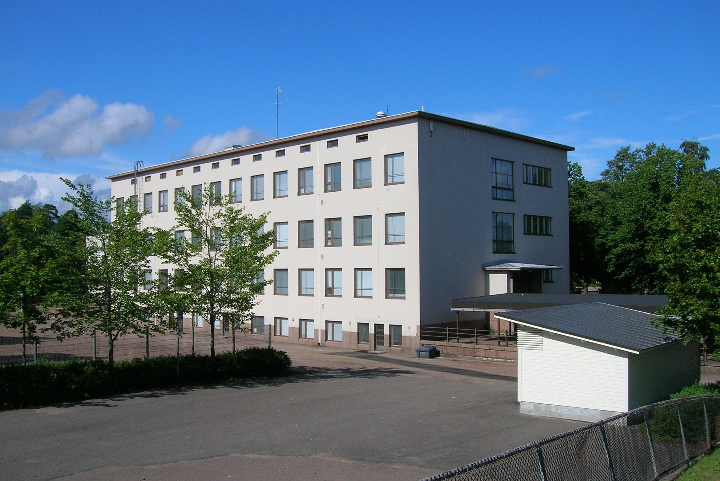 Metsolan koulu, an elementary school in Kotka, Finland.